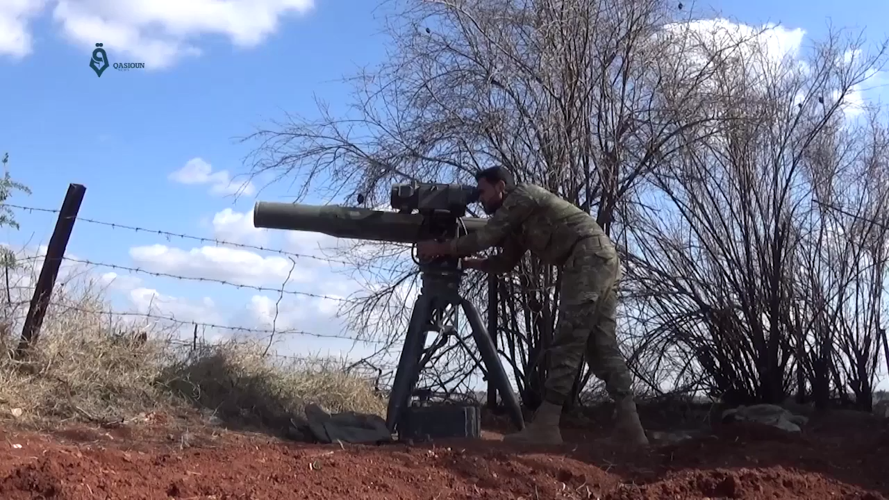 A rebel fighter from the Army of Glory launch a BGM-71 TOW anti-tank missile at Syrian government positions in the countryside north of Hama